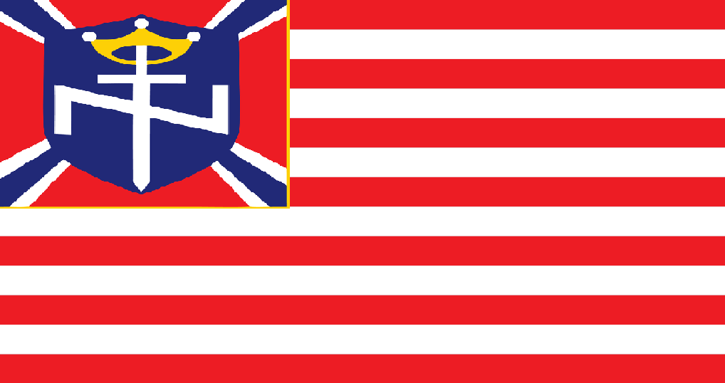 This is the flag of the white supremacist group known as the Aryan Nations.